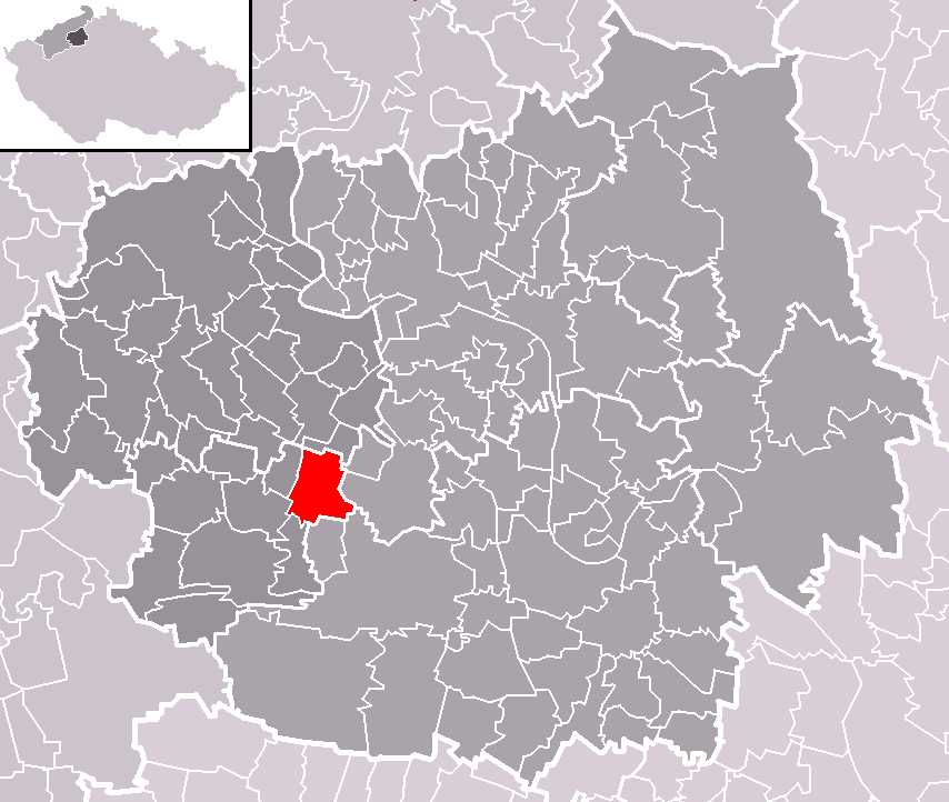 Location of Chotěšov municipality within Litoměřice District and administrative area of Lovosice as a Municipality with Extended Competence.